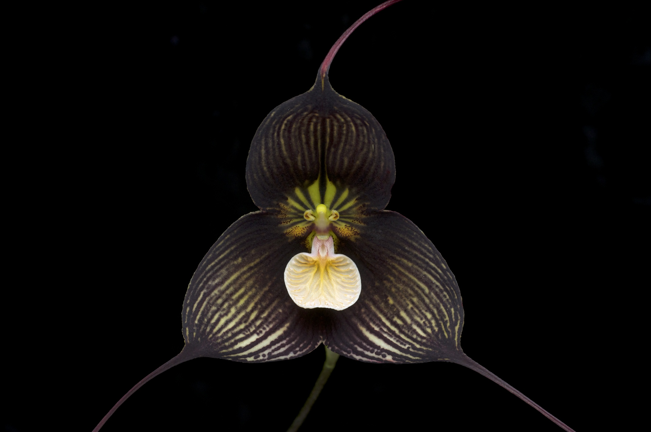 Species from Ecuador Grown by Hawk Hill Nursery, Pacifica, California